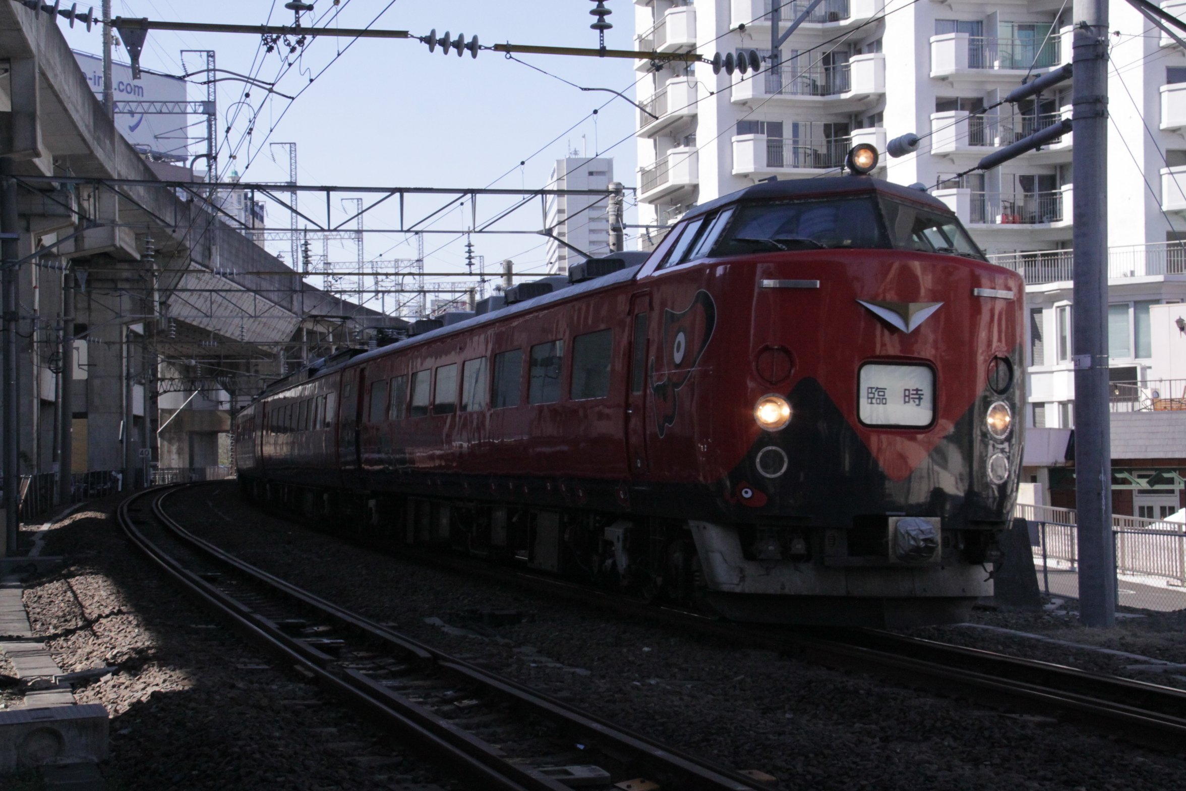 JR East 485 series EMU near Sendai Station on a Shinkansen Relay service for Fukushima